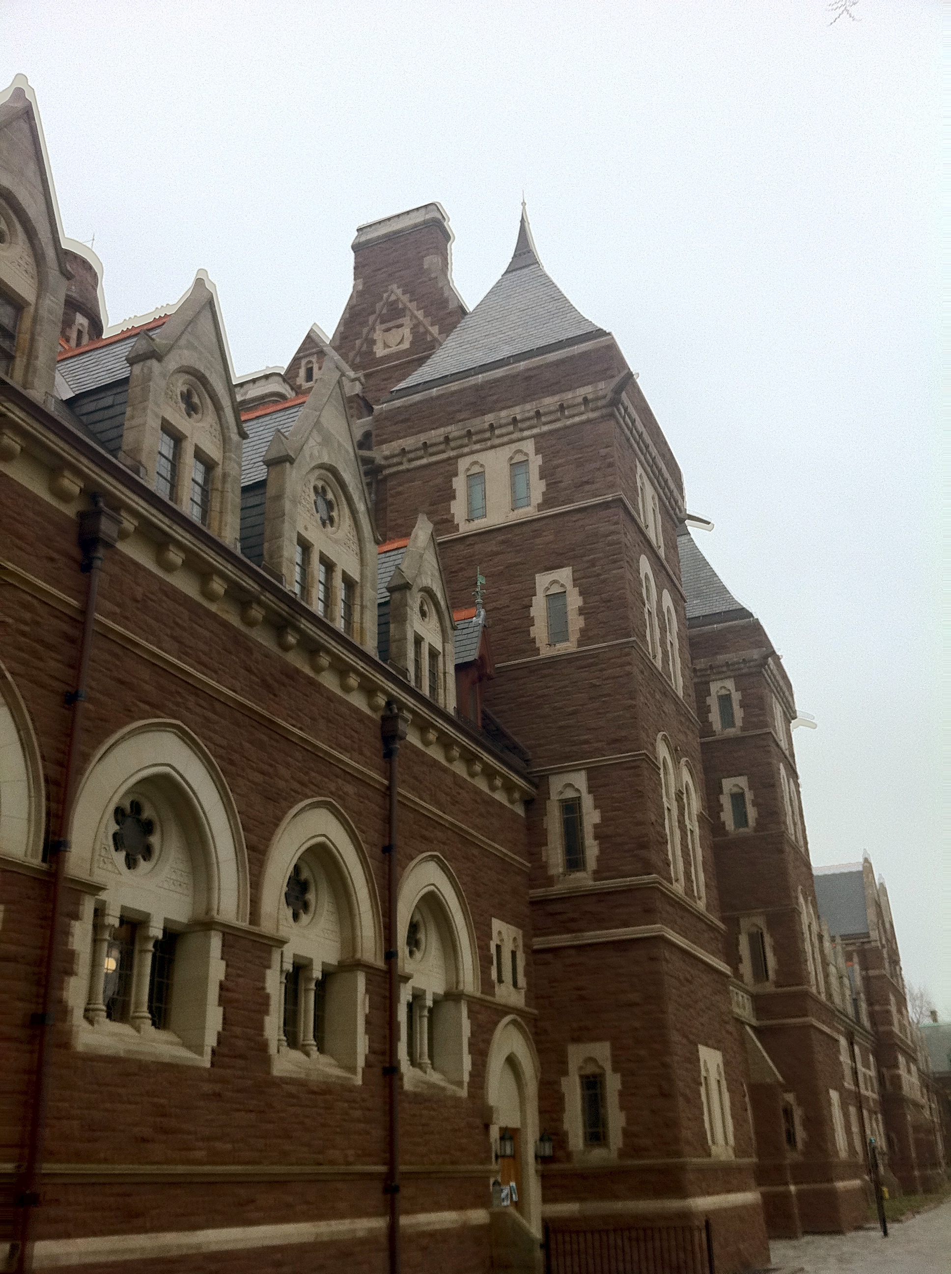 Part of the Long Walk buildings, Seabury houses classrooms.